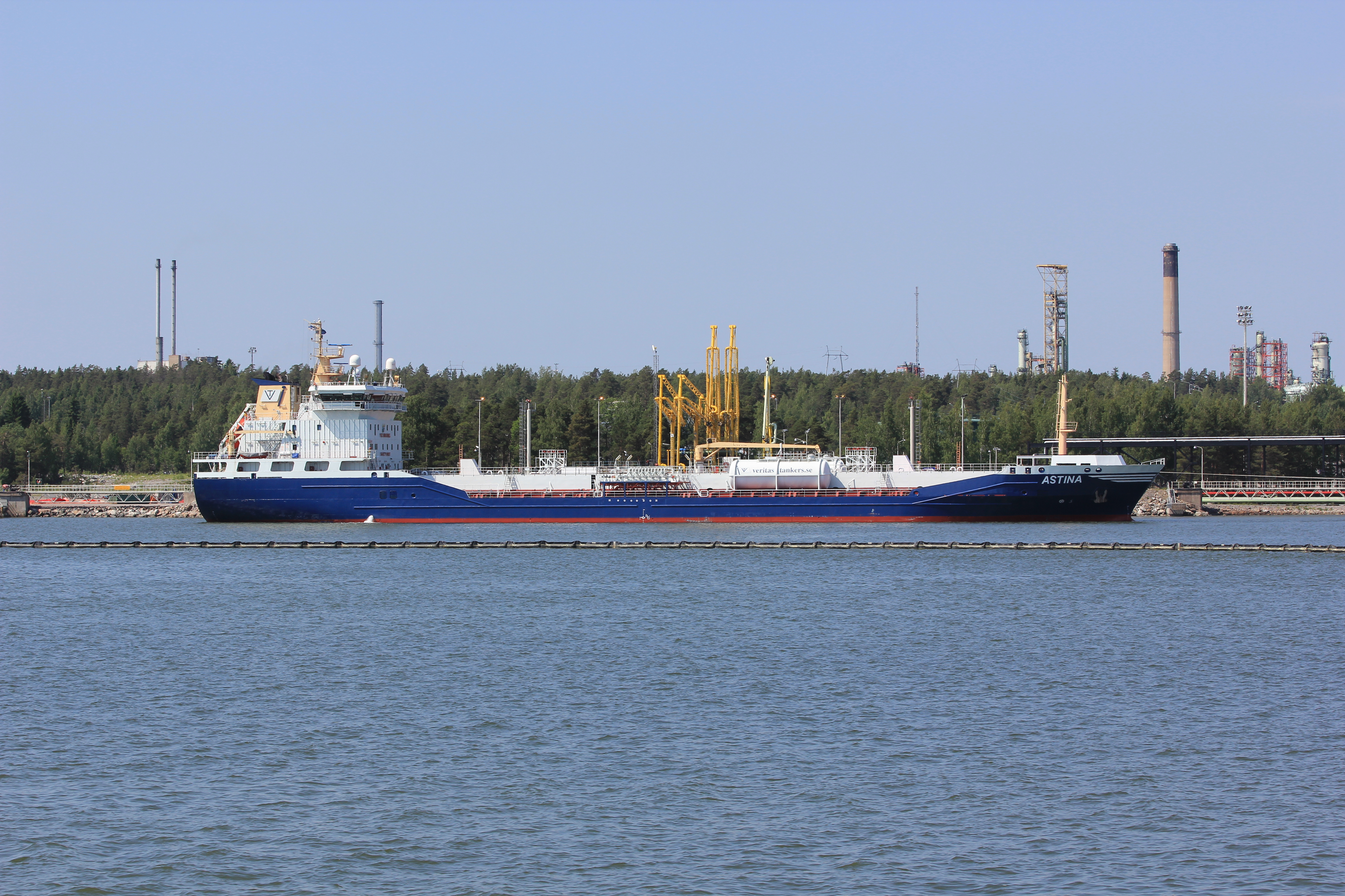 Oil tanker Astina moored at Porvoo oil refinery.